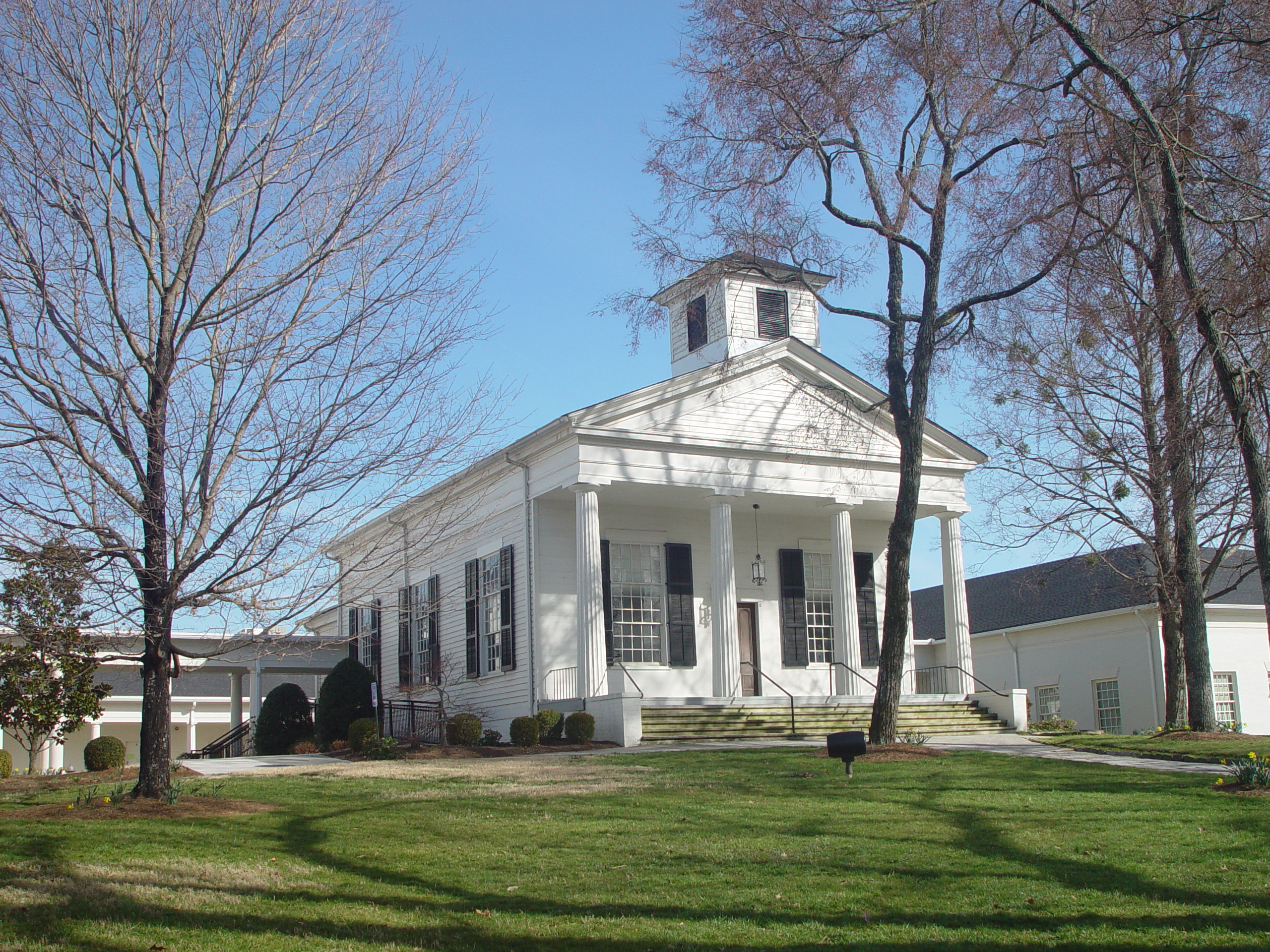 Roswell Presbyterian Church Original Building, Roswell, Georgia, USA